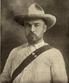 General Frederick Funston, scanned from 1899 book "War in the Philippines"